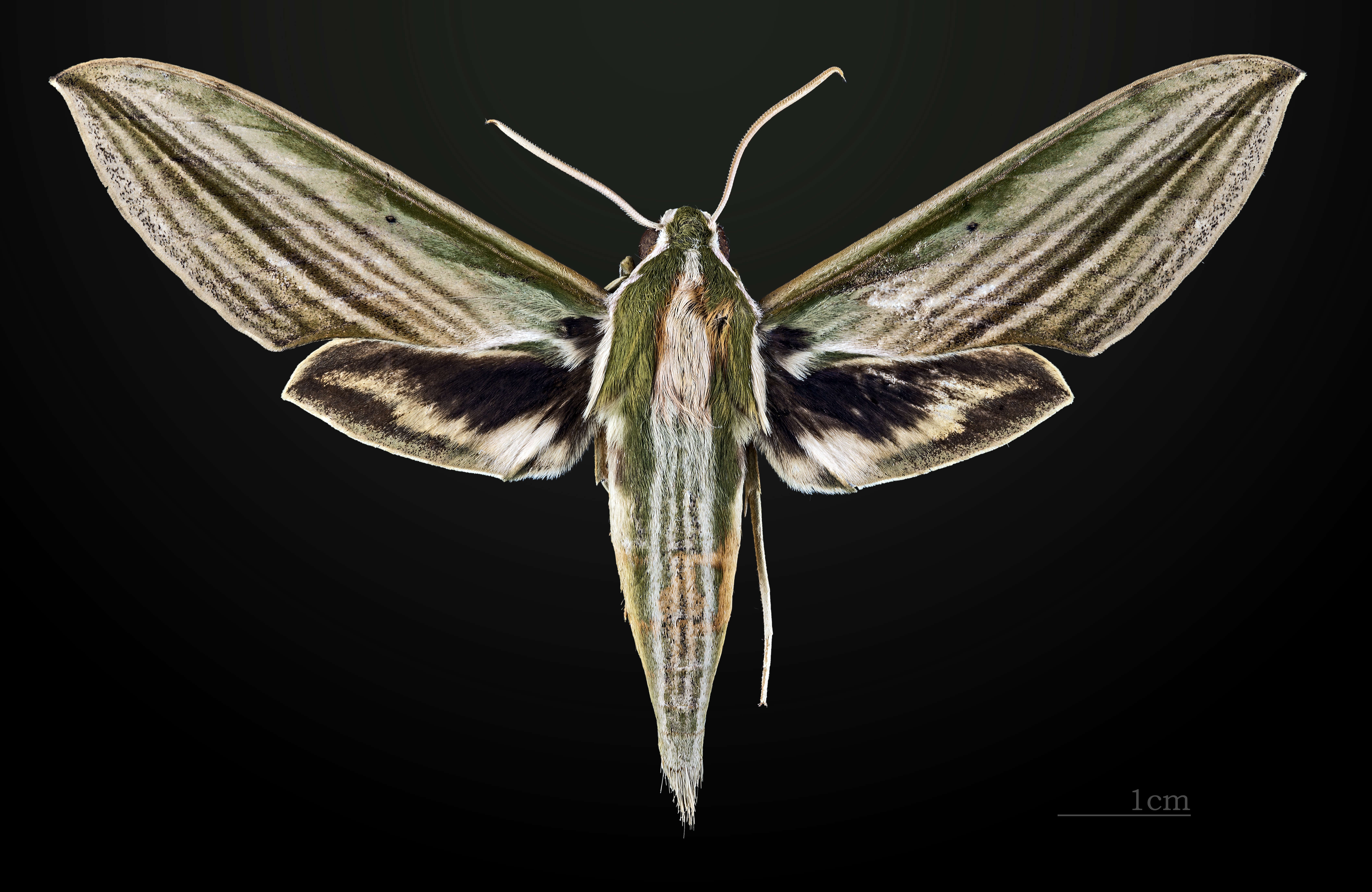 Cechenena lineosa - Dorsal side Collection of the Mathematician Laurent Schwartz